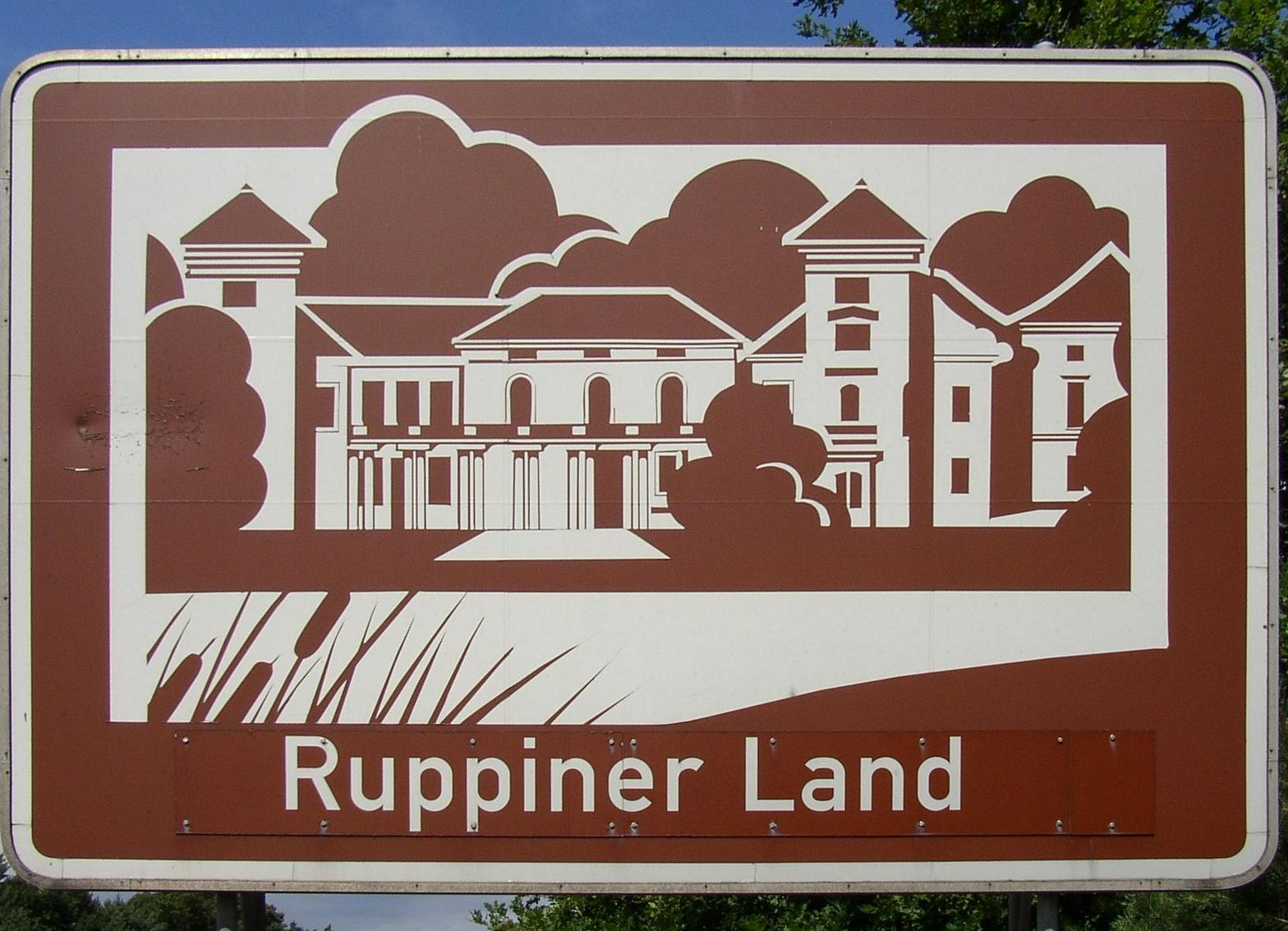 Tourist information board for Ruppiner Land region at Autobahn 24, northeast Germany.